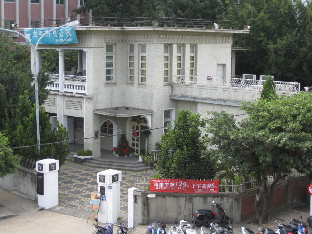 Taichung former major's residence, located on Shuangshih Rd.,Taichung City,Taiwan.